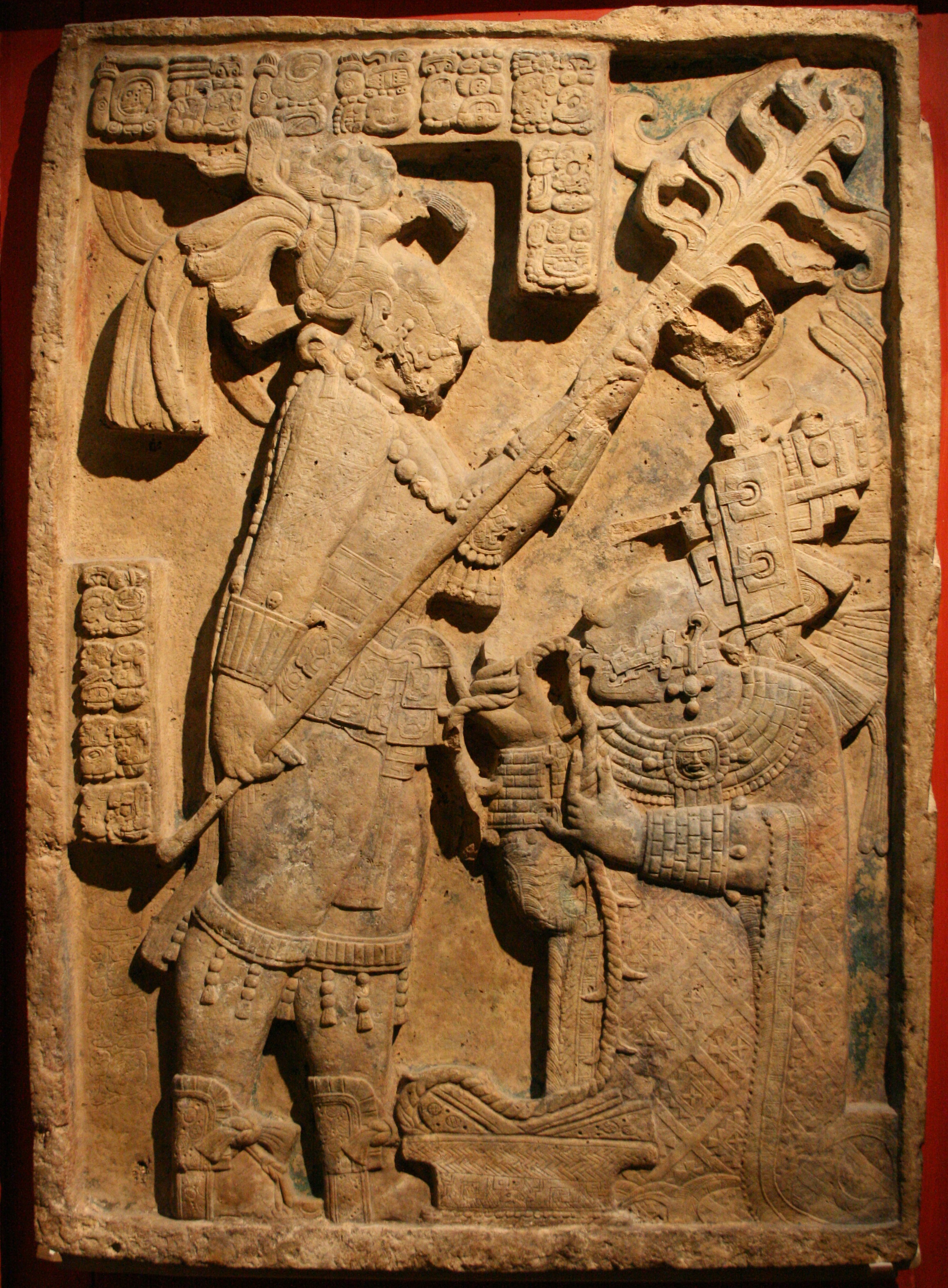 Maya site of Yaxchilan (Mexico). Classic period. Lintel 24 of Structure 23 depicting abloodletting ritual: Lady Xook, wife of king Shield jaguar II drawing blood. From the British Museum.